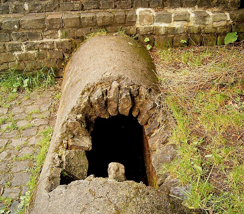 Eifel aqueduct in Nettersheim